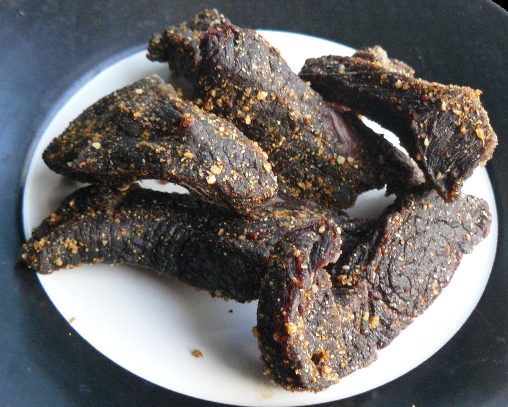 Author: Jamsta Summary Homemade biltong, based on a modified South African recipe. Made using: apple cider vinegar, ground coriander, table salt, ground black pepper, garlic pepper, ground chili pepper and white sugar. It was then hung on metal skewer in a fan-assisted electric oven at 60 C for 3 hours. The oven with biltong was then switched off for 20 hours at room temperature (approx 20 C).